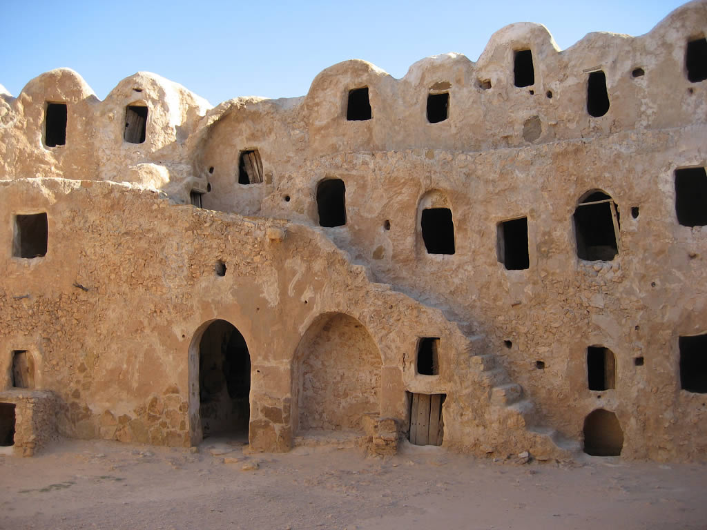 Inside view of Gasr Al-Hajj fortified granary, located on the Tripoli-'Aziziya-Al Jawf route in Libya about 130 km southwest of Tripoli. Built in the 13th century AD by Abdallah Abu Jatla.